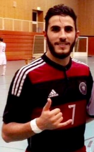 Futsal-Nationalspieler Memos Sözer